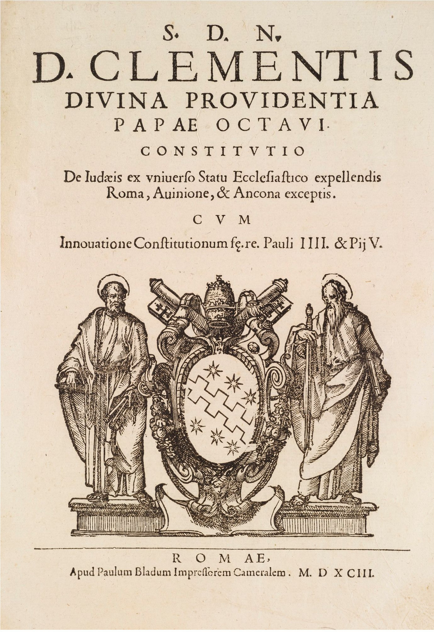 Title of the printedpapal bull Caeca et Obdurata of Pope Clement VIII, 1593, expelling the jews from the Papal states